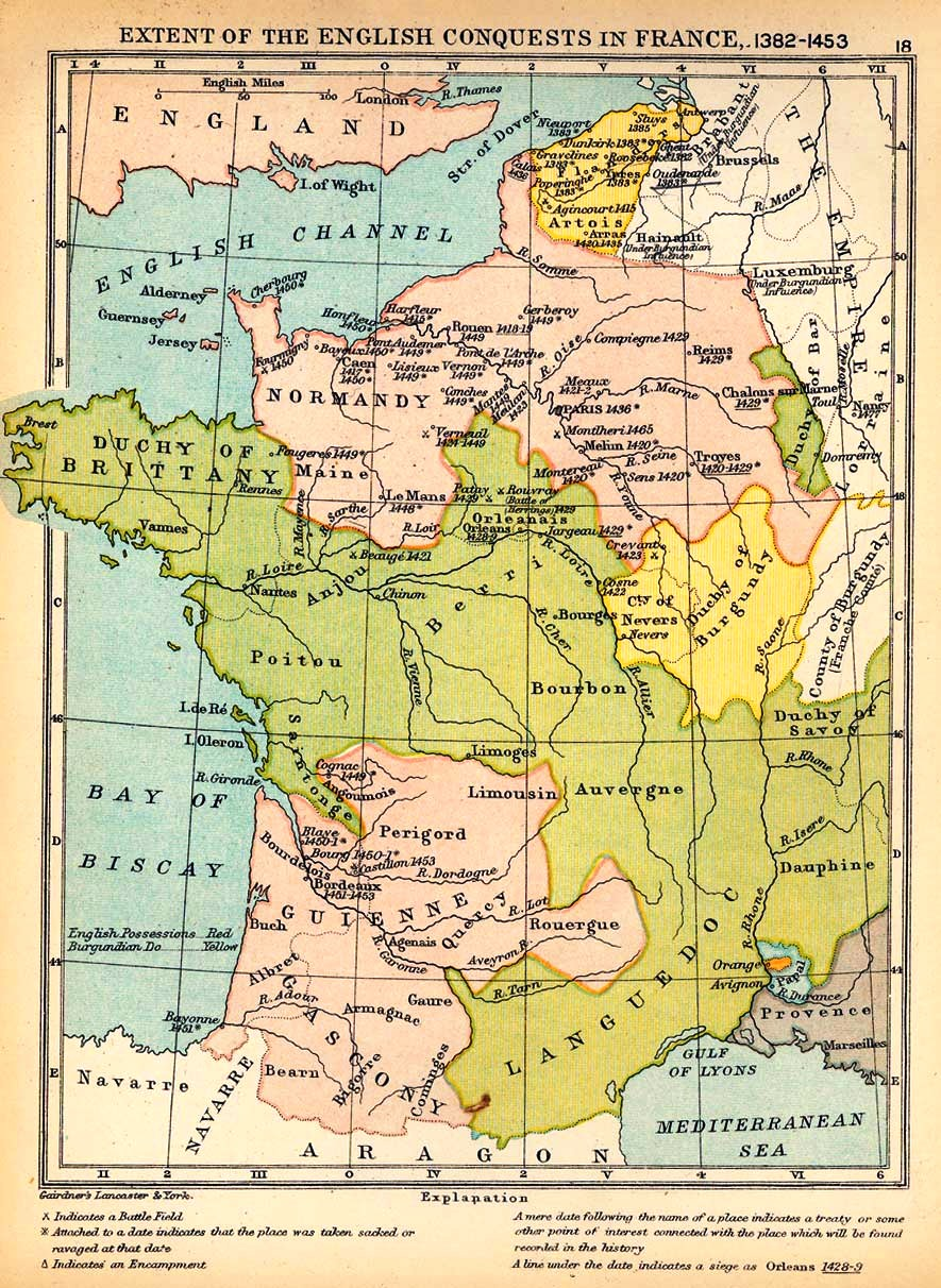 University of Texas at Austin. From The Public Schools Historical Atlas edited by C. Colbeck, 1905.